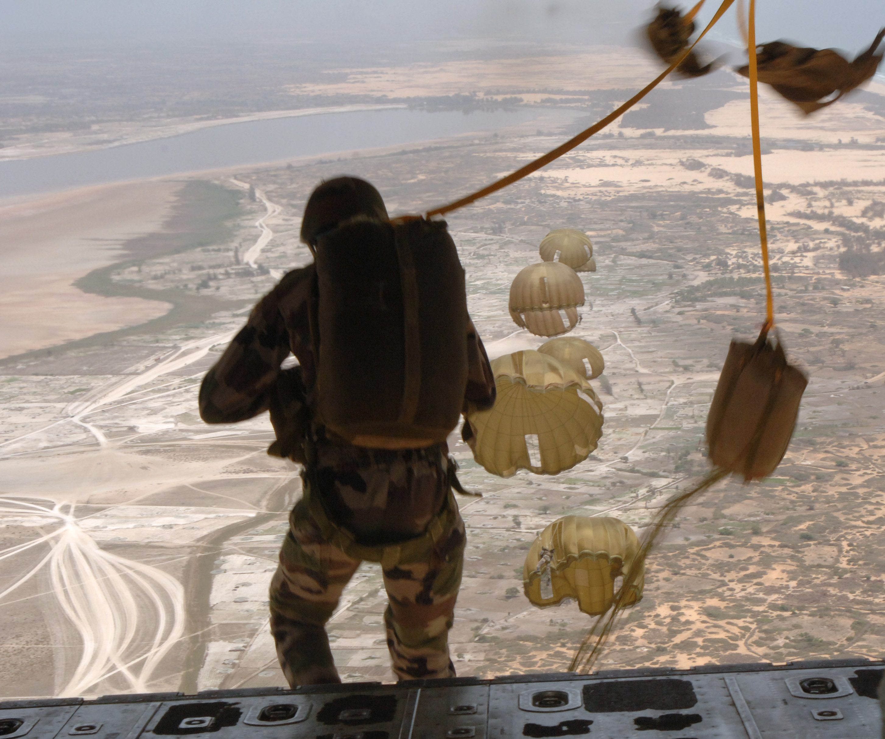 Dakar, Senegal (June 18, 2005) - Senegal Army Soldiers static-line parachute jump from a U.S. Air Force MC-130 Talon over Dakar, Senegal, during Exercise Flintlock '05. Flintlock is a series of military exercises conducted throughout the Trans-Saharan region of Africa, concentrating on ground, air operations, land navigation, human rights training and collaboration between militaries. Other countries participating in the exercise is Algeria, Mali, Mauritania and Chad. U.S.